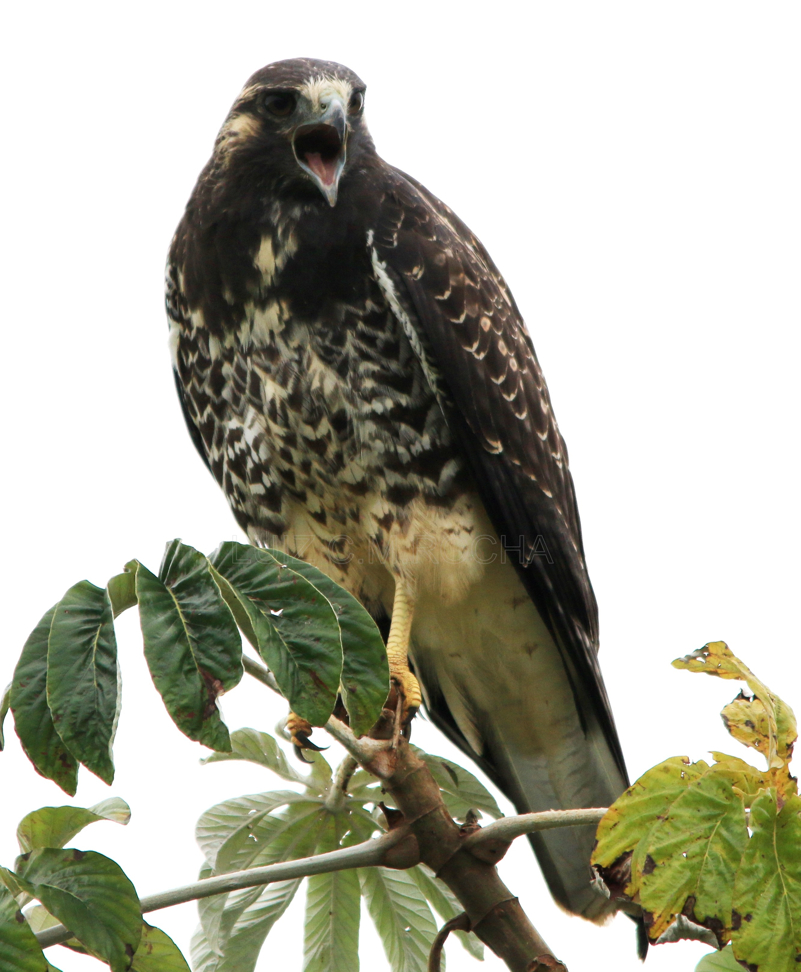 Juvenile White-tailed Hawk (Geranoaetus albicaudatus) calling